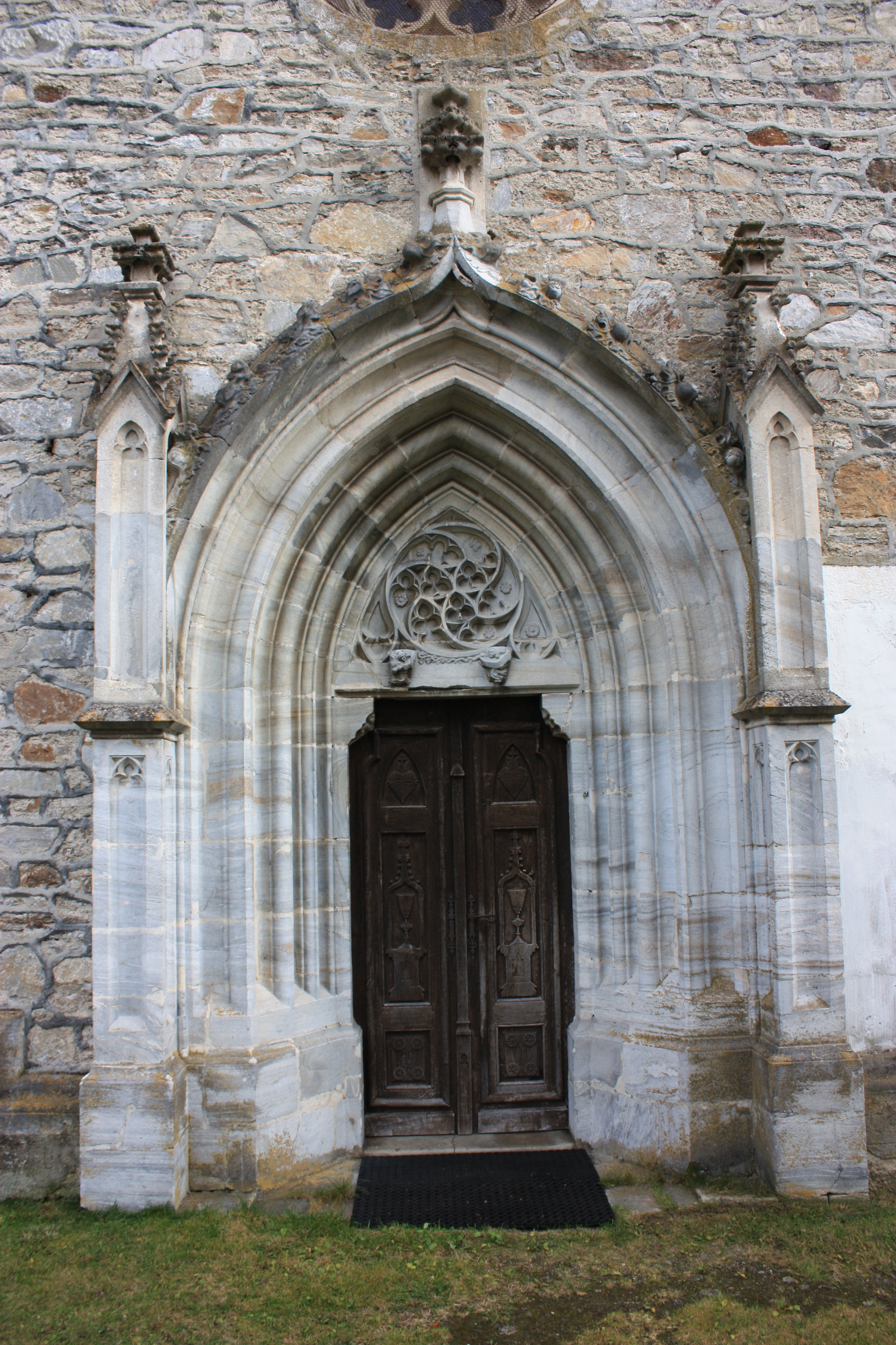 Parish church Saint Andrew: Main portal Locality: Zeltschach Community:Friesach